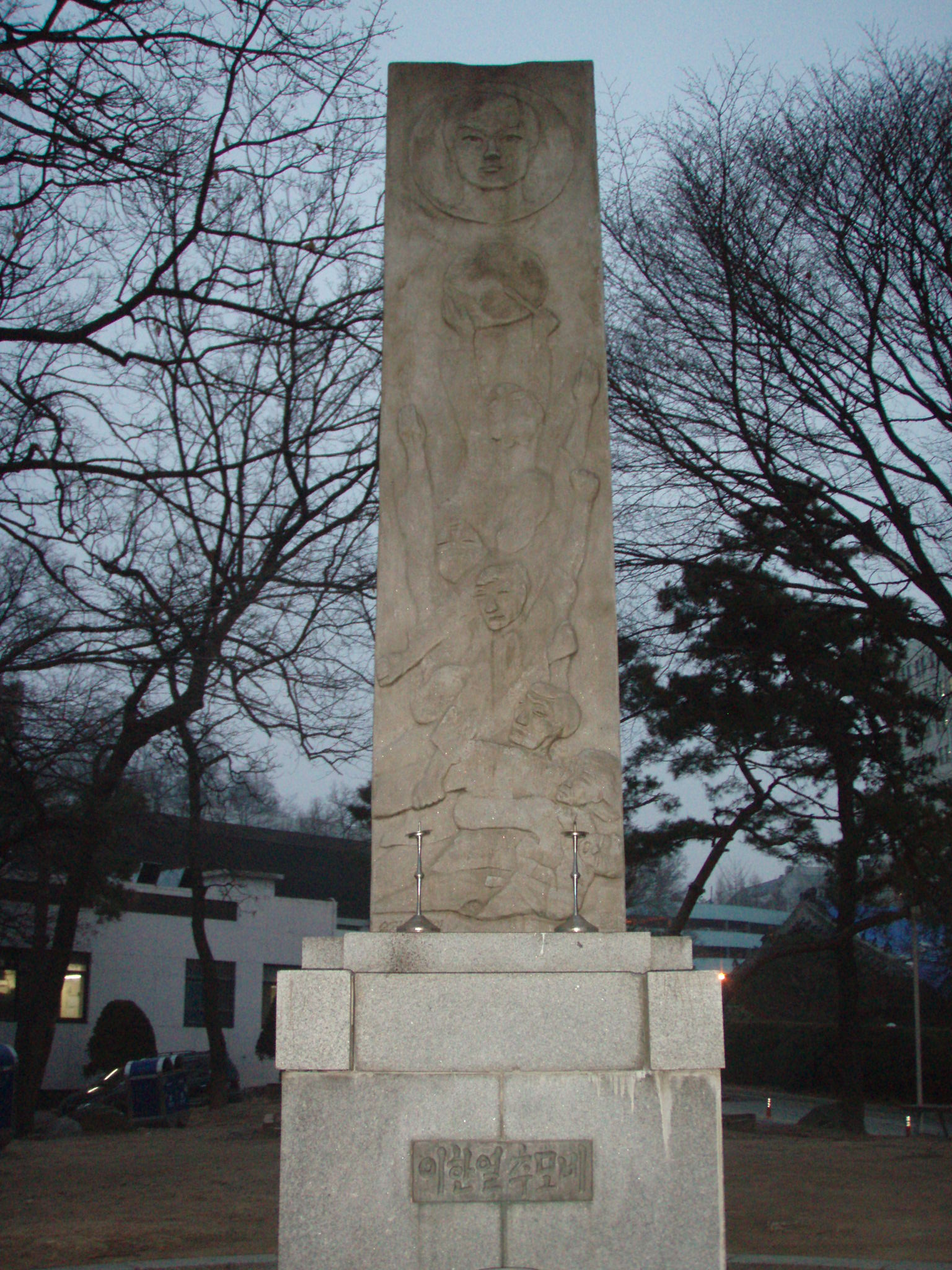 Lee Han Yeol memorial, at Sinchon Campus, Yonsei University